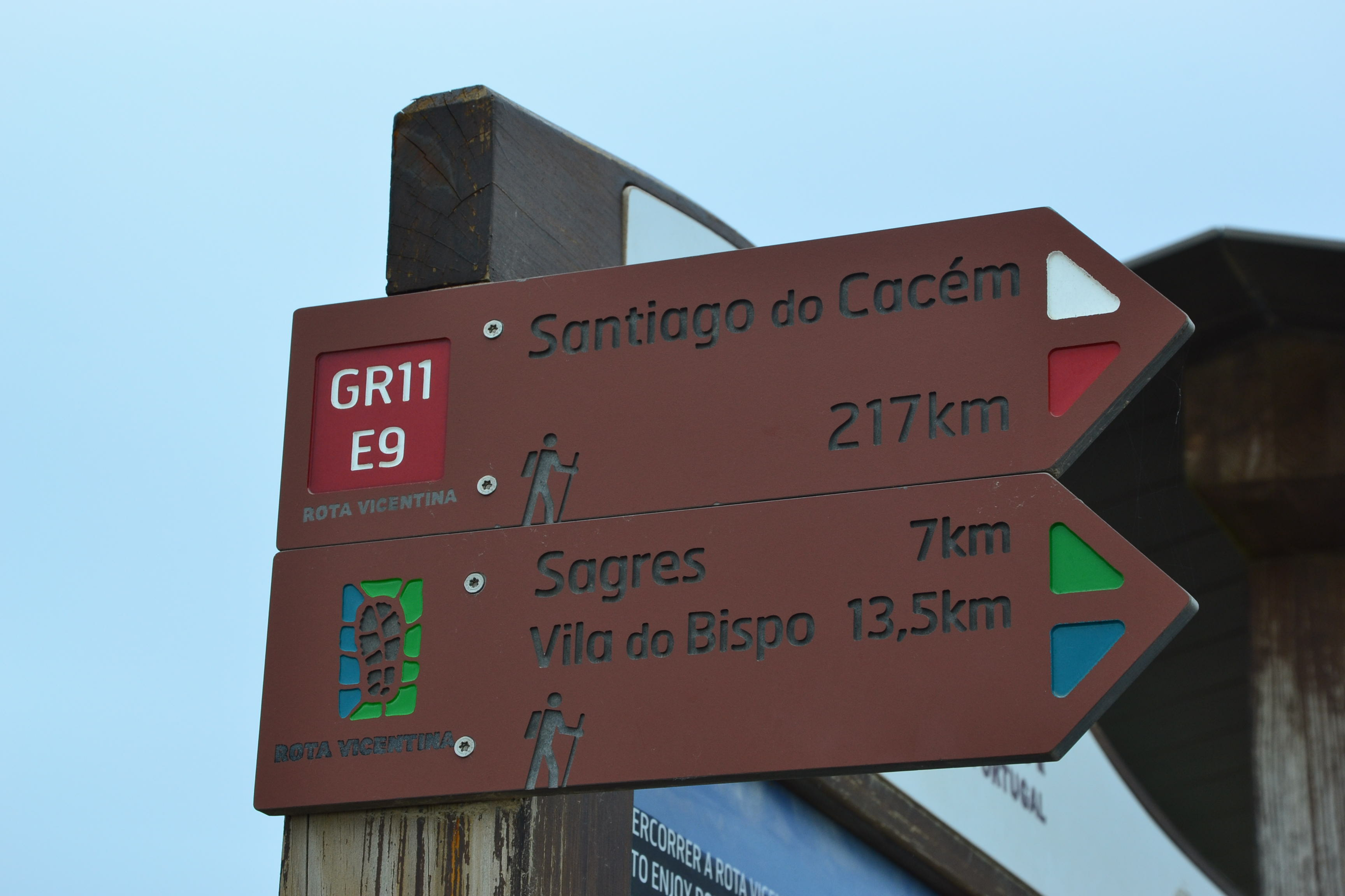 Starting point (on the European continent) of the European hiking route E9, at Cape St. Vincent, Portugal.